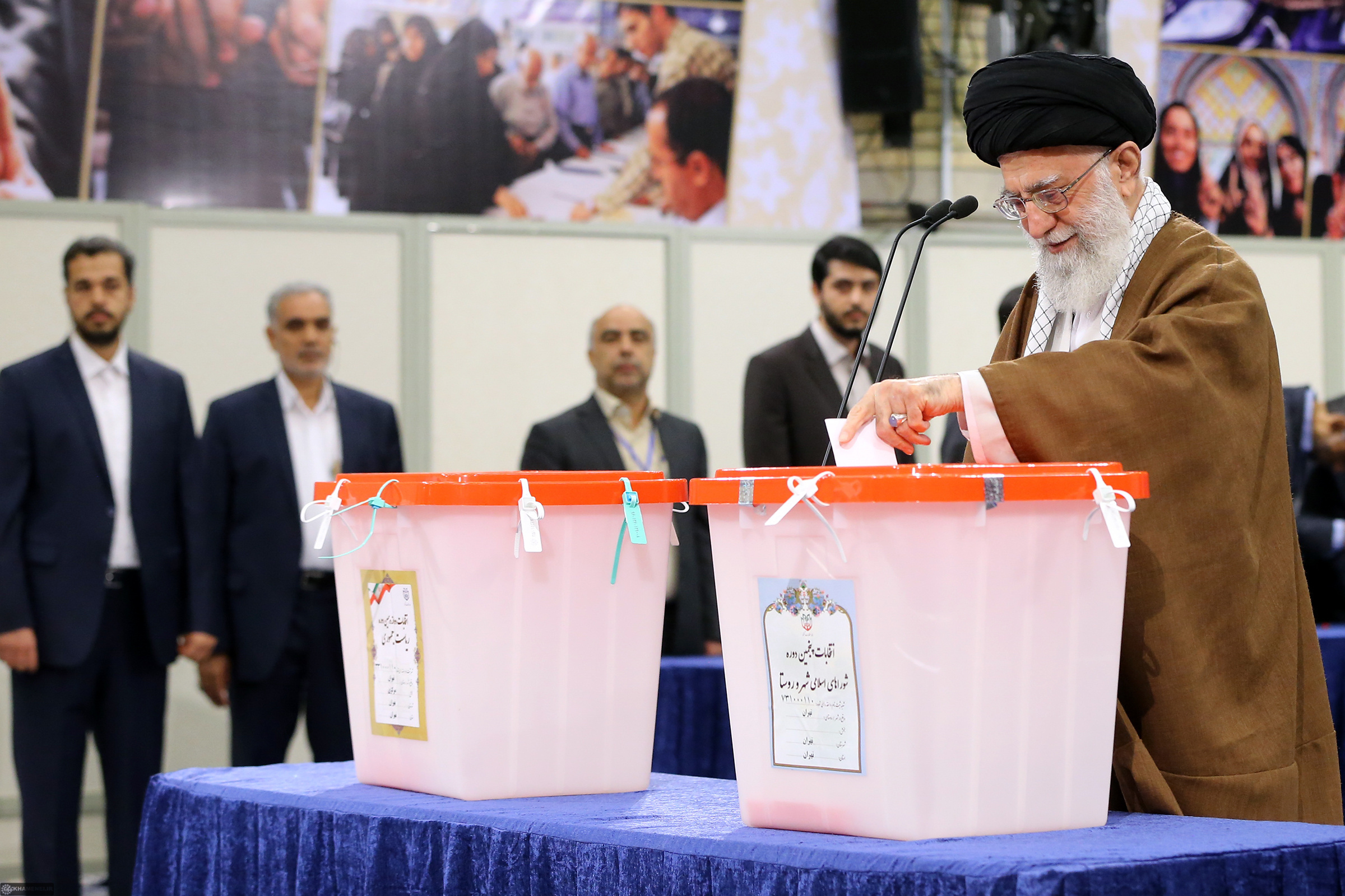 Ayatollah Sayyed Ali Khamenei, Leader of the Islamic Republic of Iran in the Iranian Presidential Elections, 2017